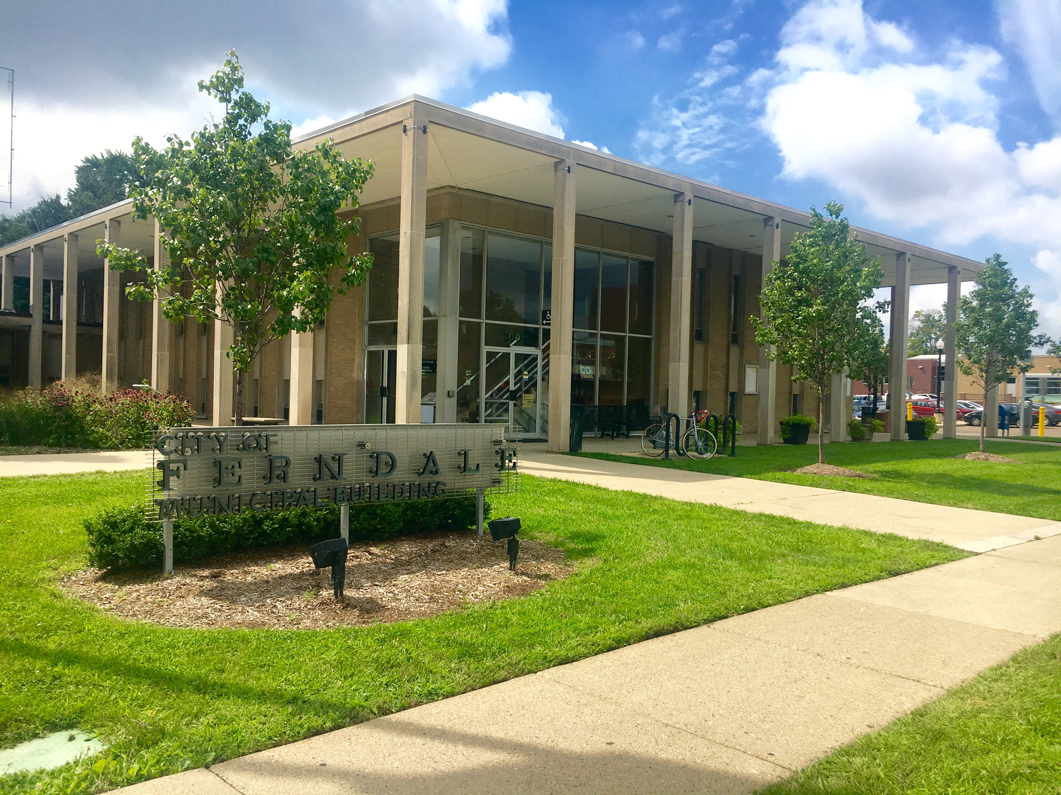 Ferndale City Hall, summer 2016